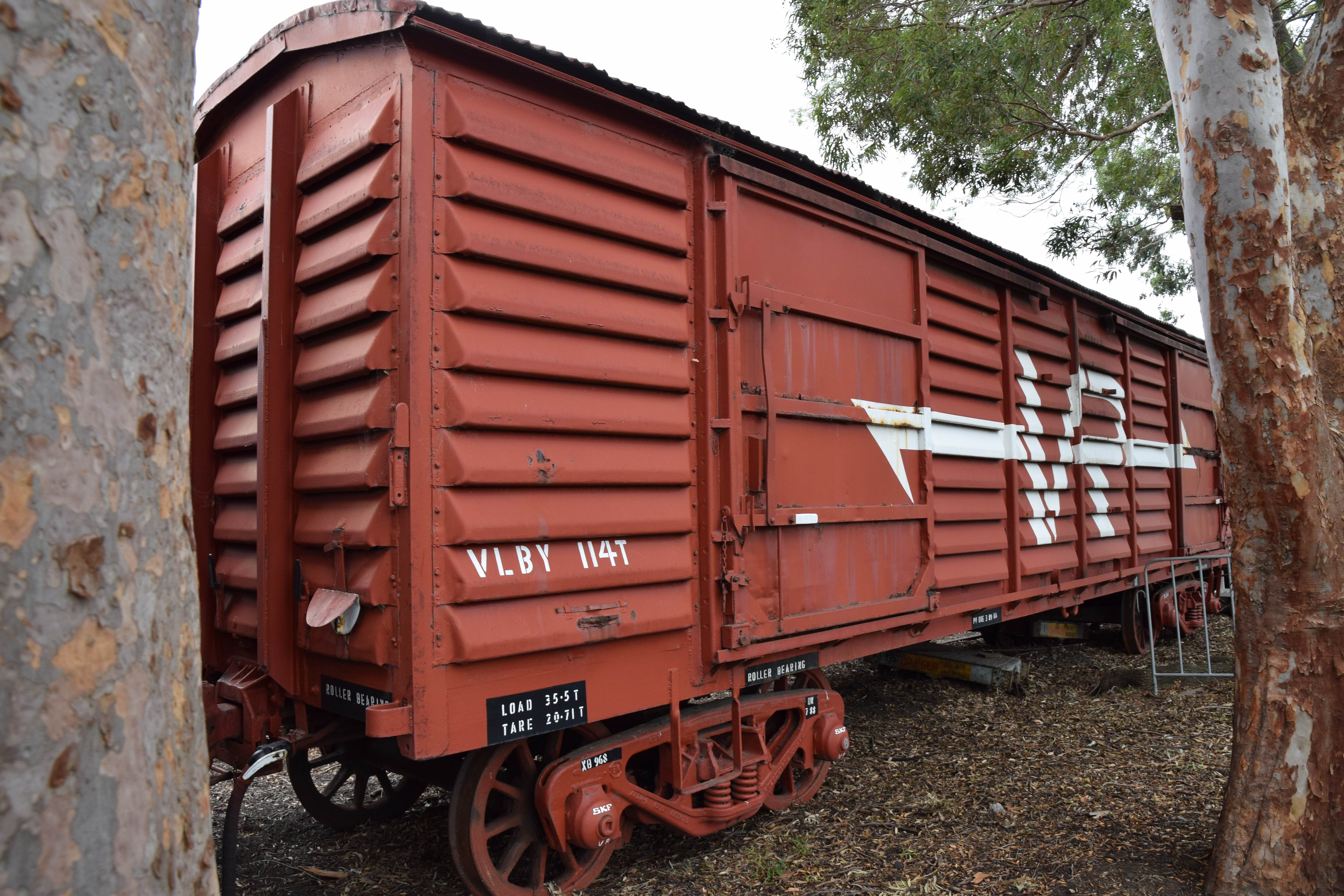 Victorian Railways 5'3" 'VLBY' Type 35.5 ton bogie ventilated van No.VLBY 114T (ex-No.VLPY 114, ex-No.VP 114 built in 1955) (with solid flat doors having replaced the original ventilated ones in 1990) at the Victoria Railway Museum, North Williamstown, 2 April 2016. 2 prototype 'V' Type vans were built by American Car & Foundry in 1925. VR changed the design to incorporate a modified roof and built 80 'V' Type in Newport in 1927-29, most with twin doors. As late as 1954-56 50 more were built as 'V' or 'VG' (standard gauge), all later reclassified 'VP'. When refitted with new bogies in the early 1960's they became 'VF's' but later they were refitted with their slower speed freight bogies and reclassified yet again 'VLBY'.